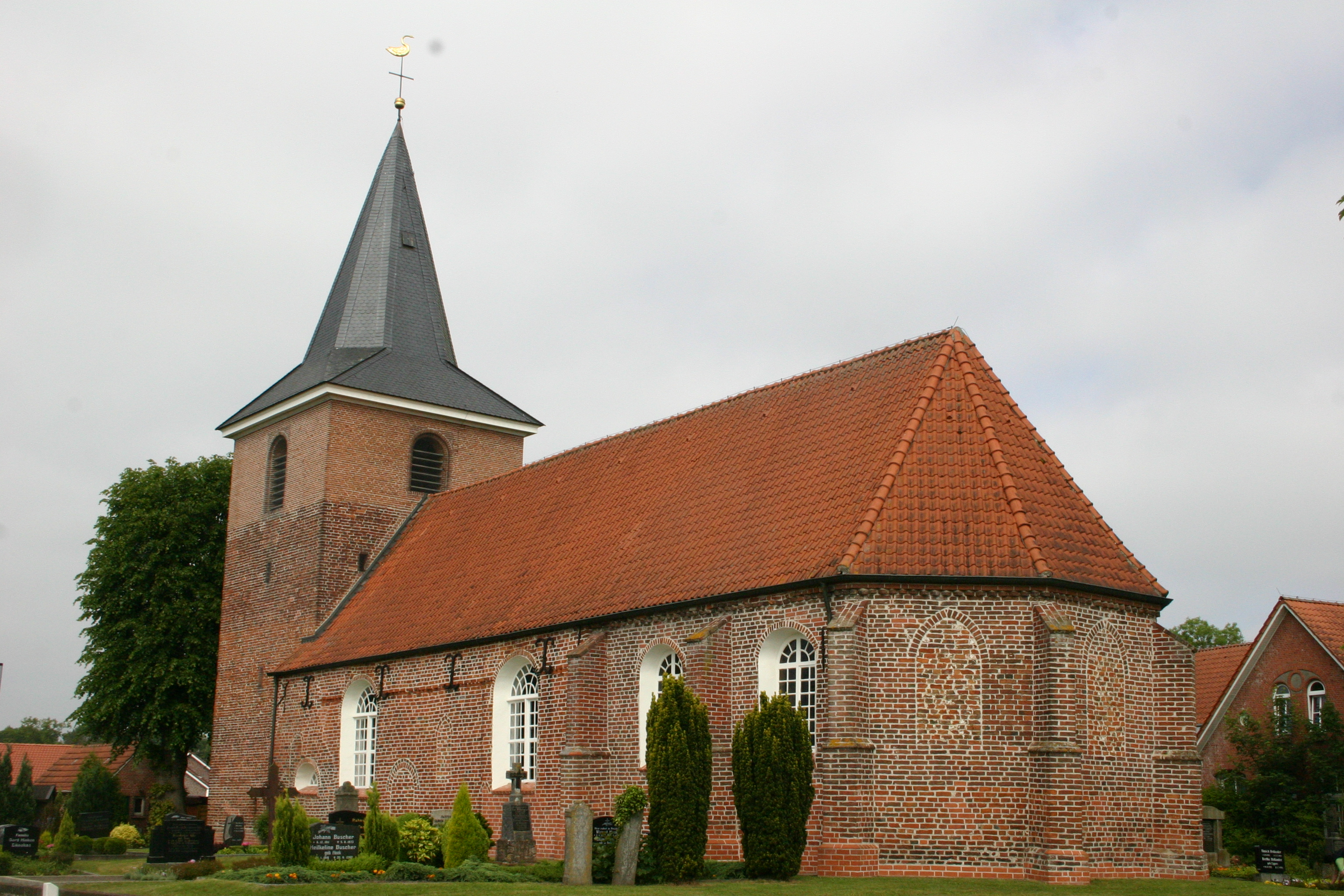 Historic church in Collinghorst, district of Leer, East Frisia, Germany